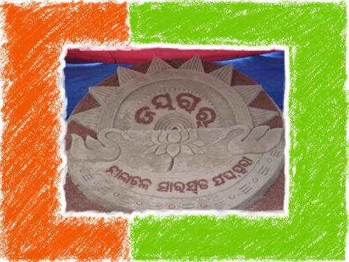 The Emblem - Nilachala Saraswata Sangha, Puri India